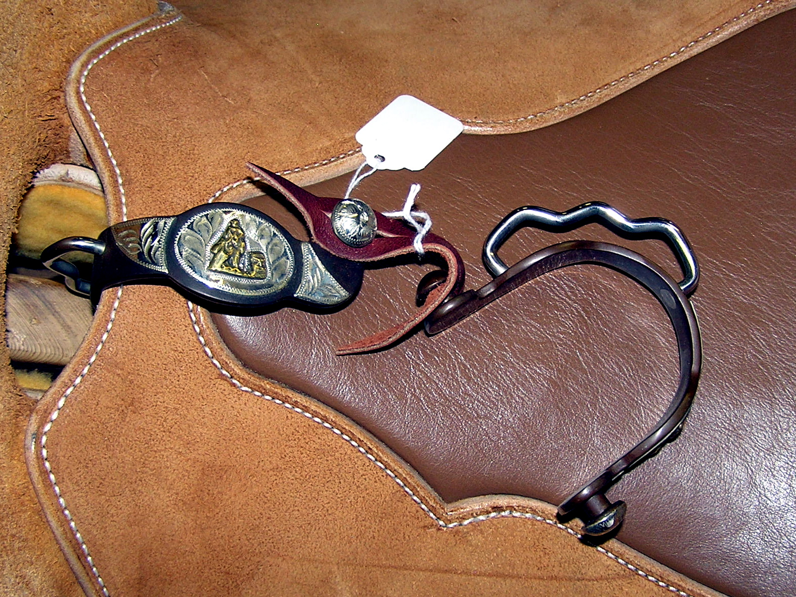 Set of barrel racing spurs, one turned sideways to show outside heel decoration, the other flat to show spur effect on inside heel. Image taken with staff permission at Three Forks Saddlery, Three Forks, MT